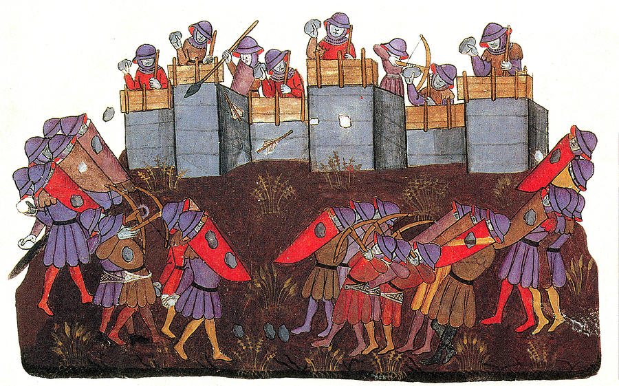 Miniature from the Alba Bible, 1430, an illuminated manuscript translation of the Old Testament made directly from Hebrew into Mediaeval Castilian showing Jews defending Jerusalem's Wall while it is being built. According to the Bible, before King David's conquest of Jerusalem in the 11th century BC the city was home to the Jebusites. The Bible describes the city as heavily fortified with a strong city wall. The city ruled by King David is now believed to be southwest of the Old City walls, outside the Dung Gate. His son King Solomon extended the city walls and then, in about 440 BC, in the Persian period, Nehemiah returned from Babylon and rebuilt them. The scene is illustrated in the style of the Middle Ages.